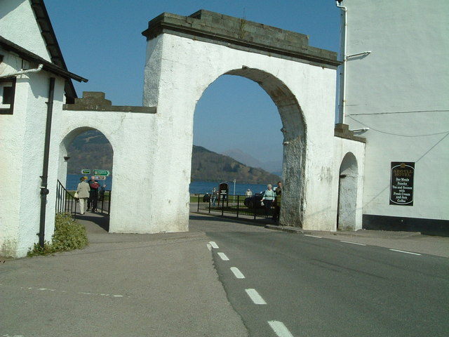 Archway from Inveraray town The archway leads to the loch waterfront and harbour